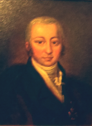 August Bécu portrait, painter Jan Rustem